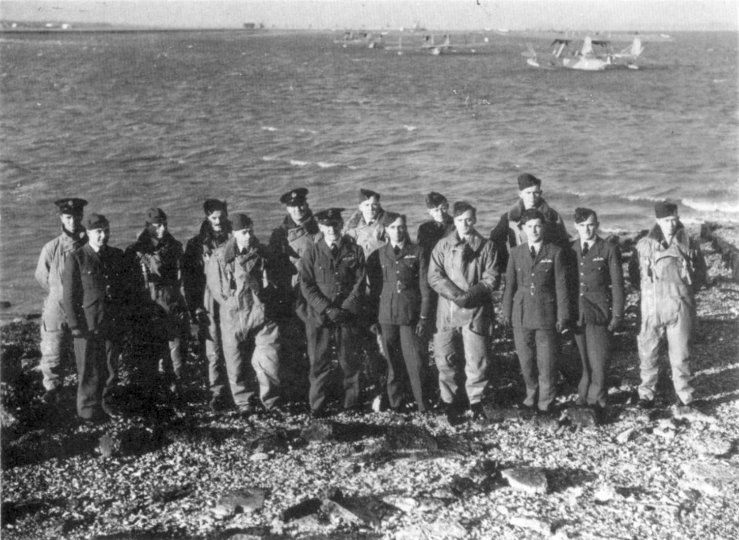 RAF personnel on the beach at Calshot. Pilot Officer (later Marshal of the Royal Air Force) Denis Spotswood is to be seen fourth from the left.